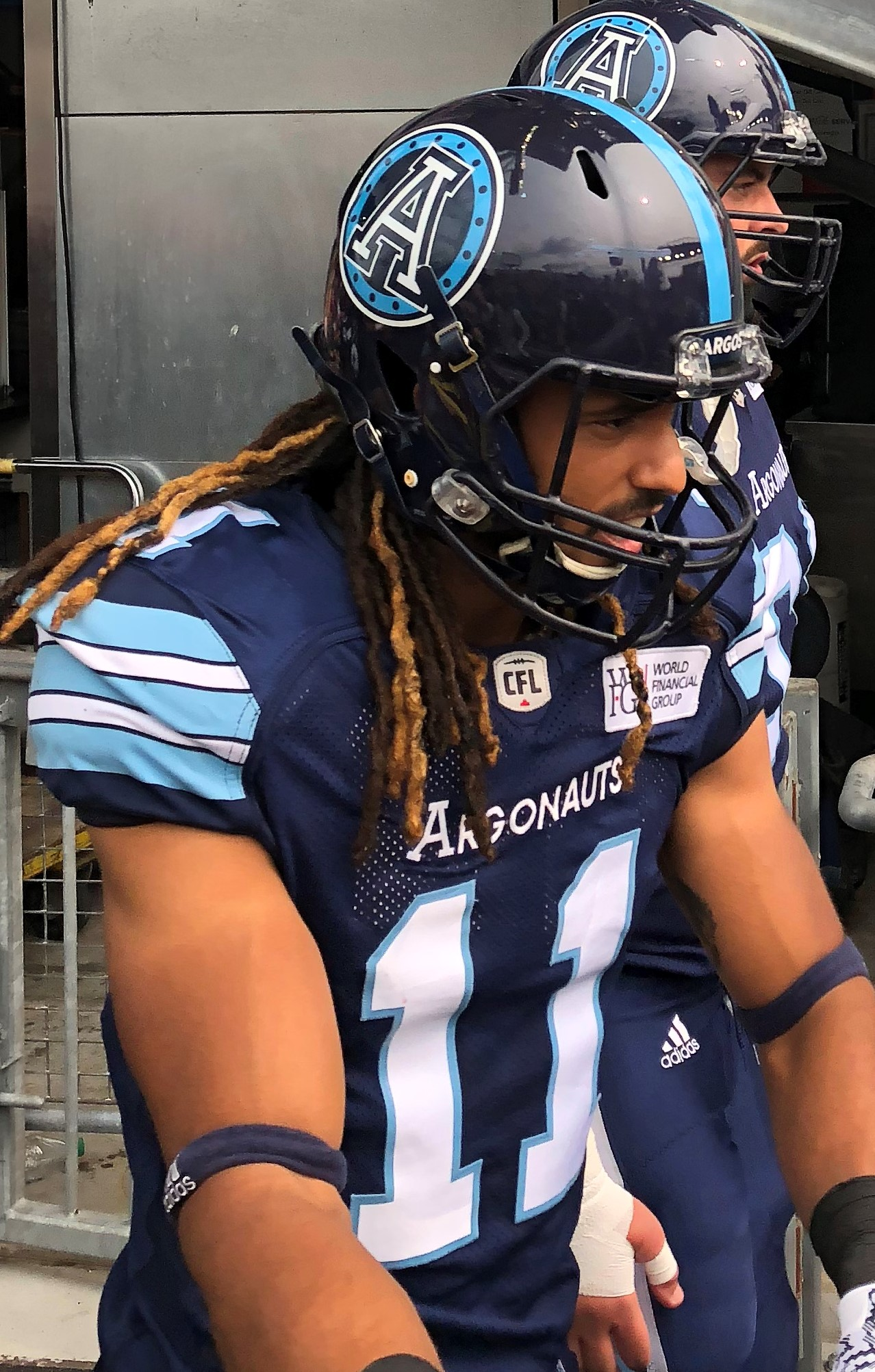 Alex Charette, receiver for the Toronto Argonauts.